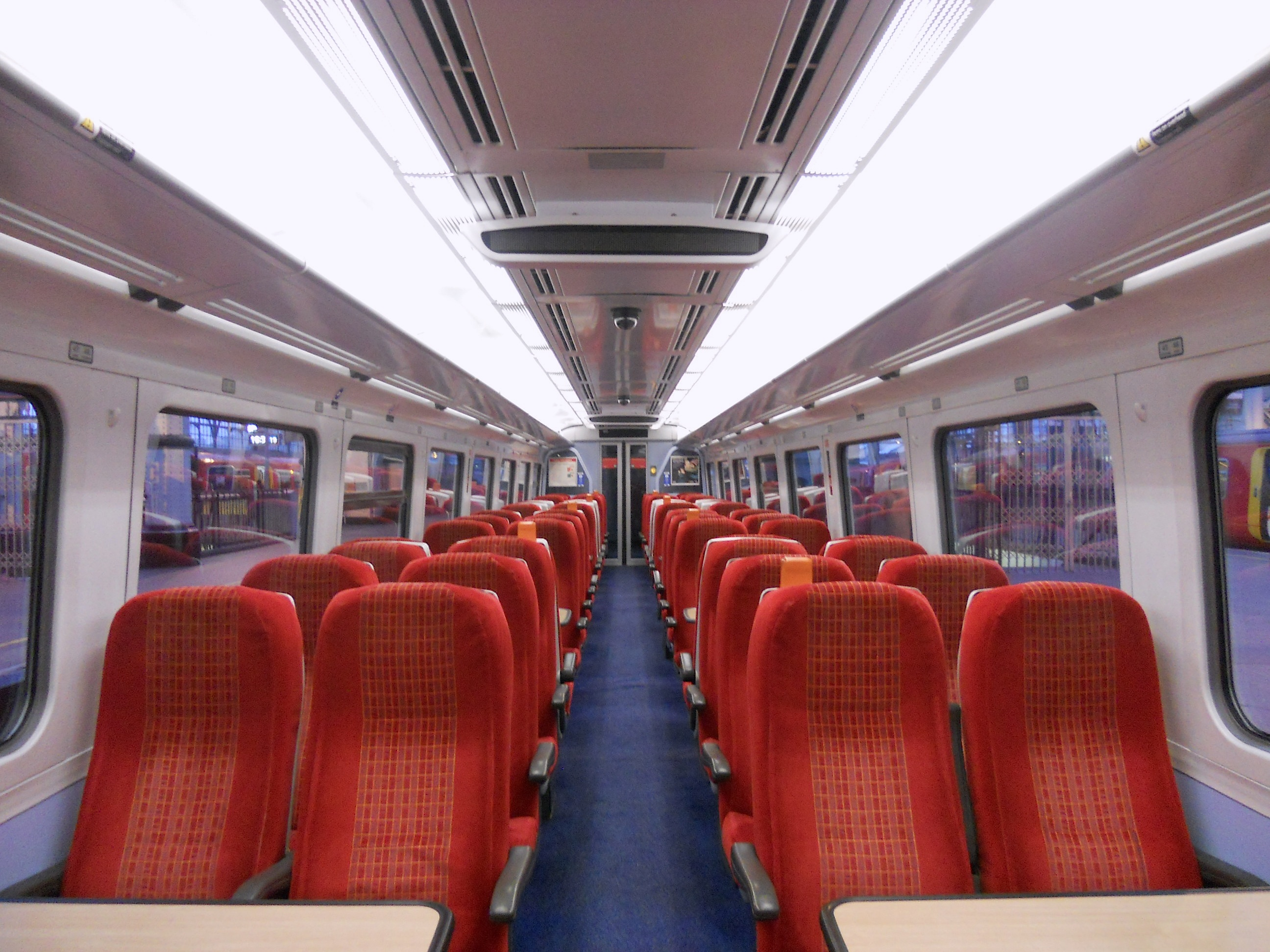 The interior of Standard Class accommodation aboard a South West Trains refurbished Class 159/1